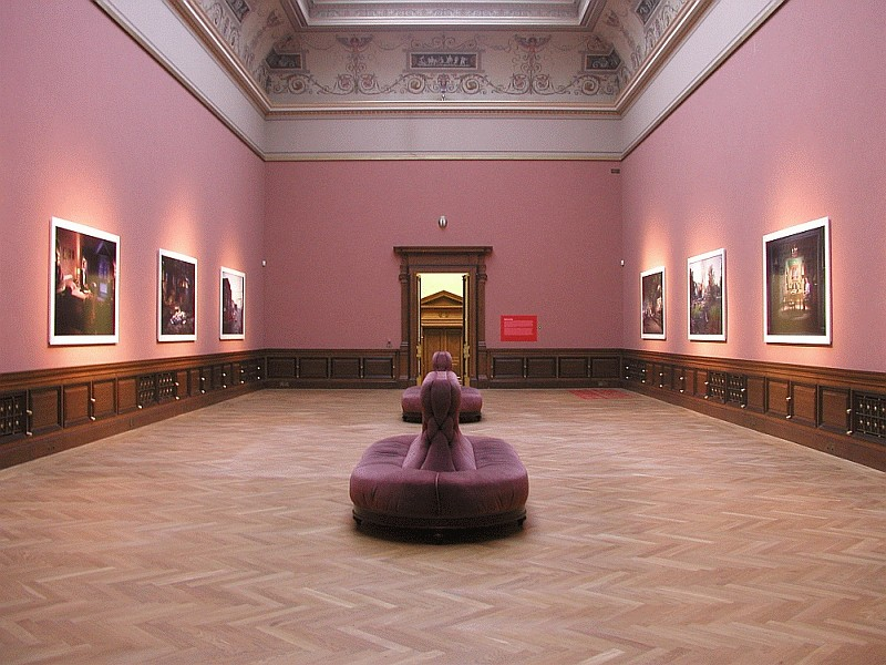 Exhibition Gregory Crewdson